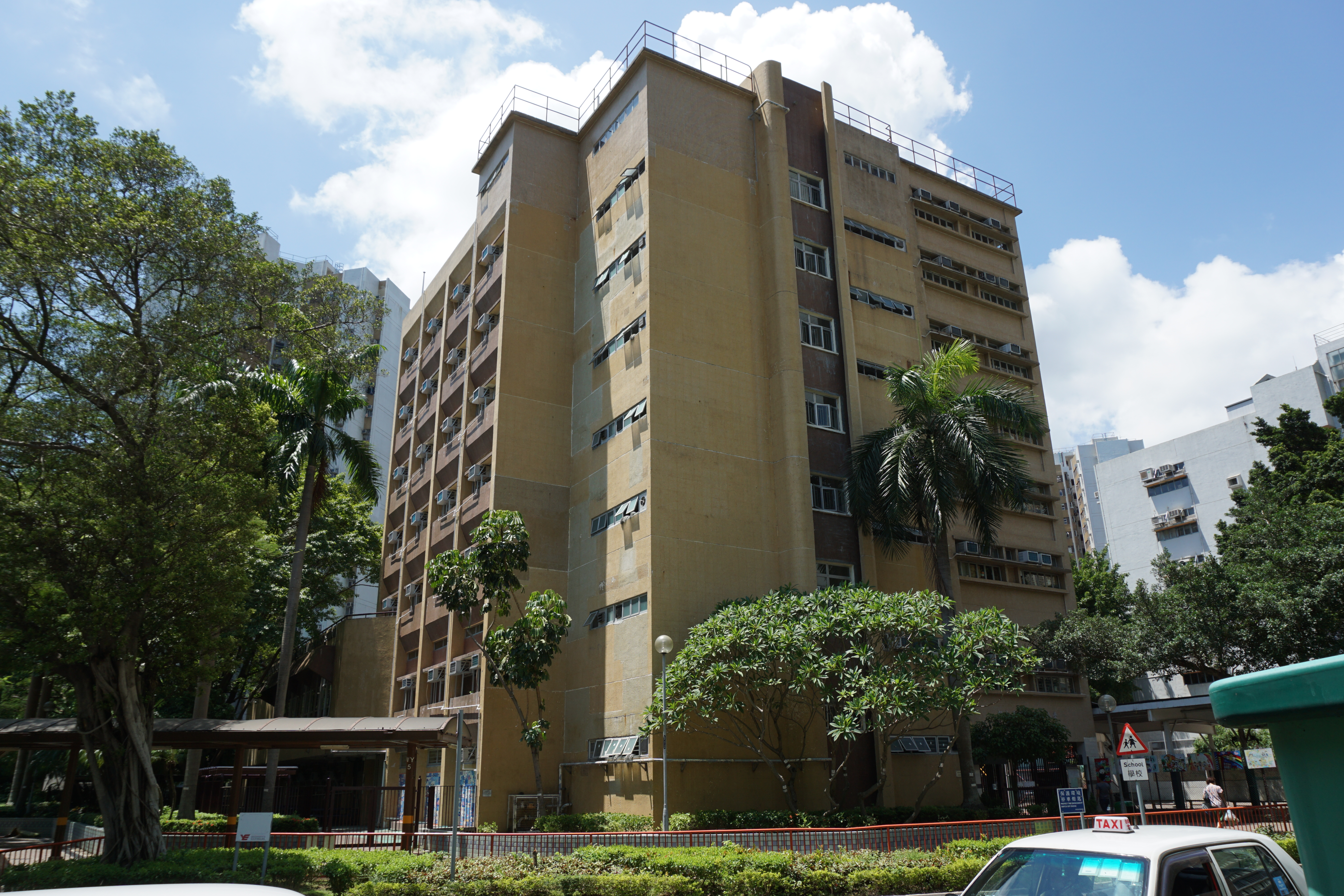 Po Leung Kuk Leung Chow Shun Kam Primary School in Tuen Mun, Hong Kong.